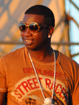 Gucci Mane at the Williamsburg Waterfront, Williamsburg, Brooklyn, August 29, 2010